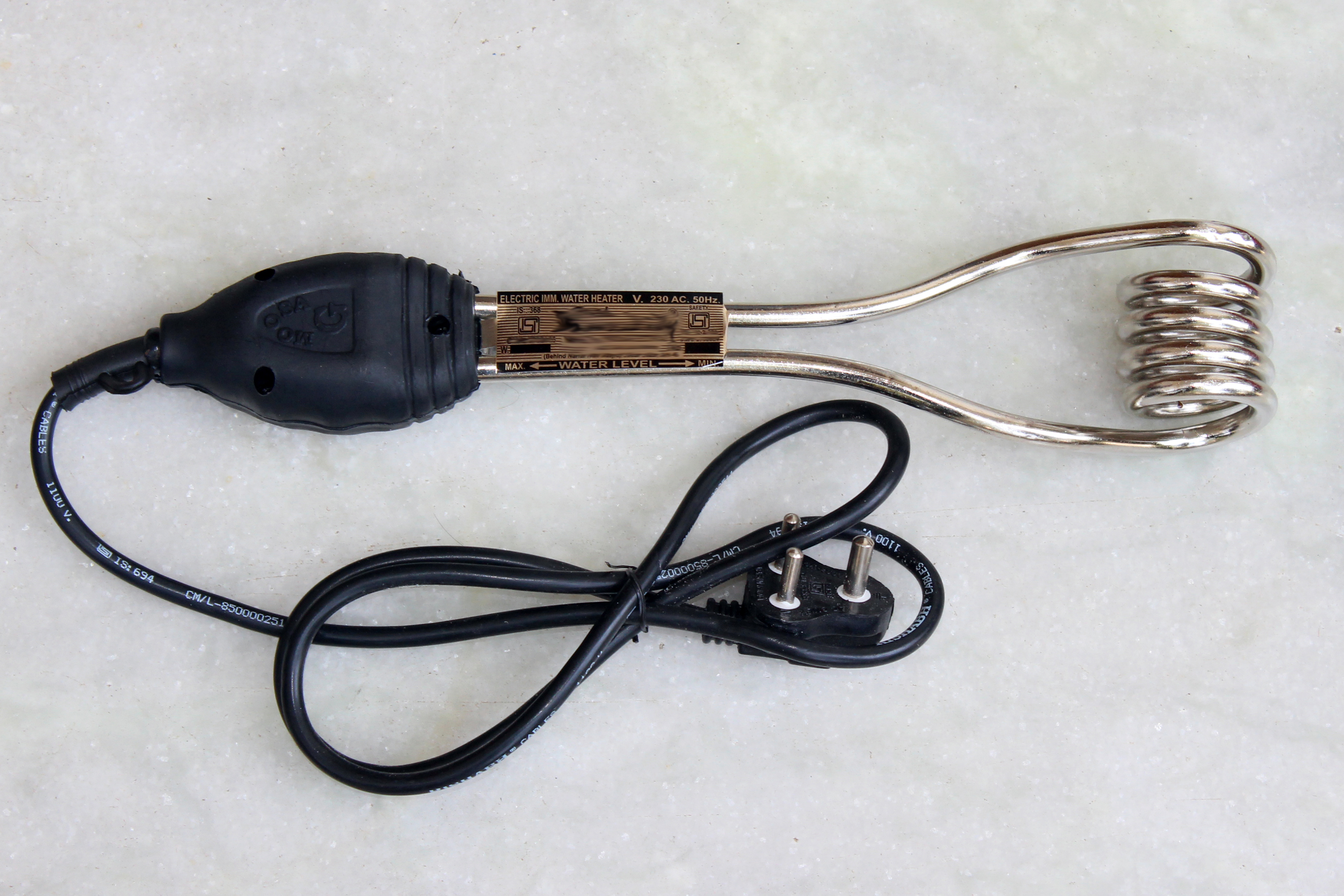 1500W Immersion Rod for water heating in a bucket